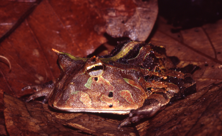 Ceratophrys cornuta